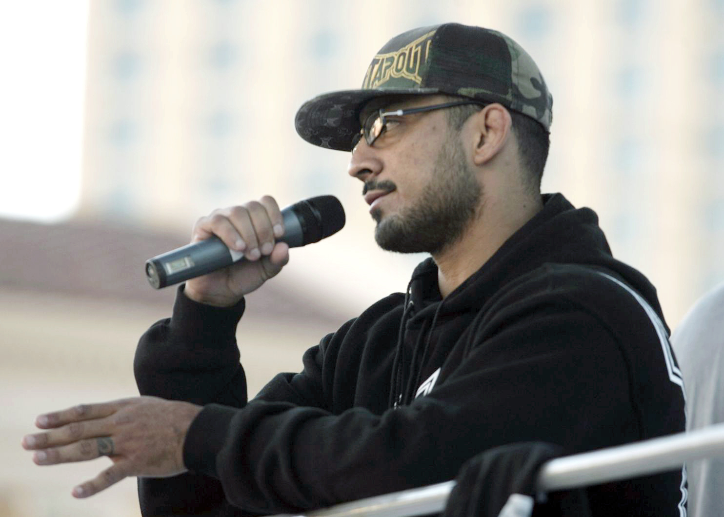 Joey Villaseñor at the Caesars Palace on October 19, 2006.